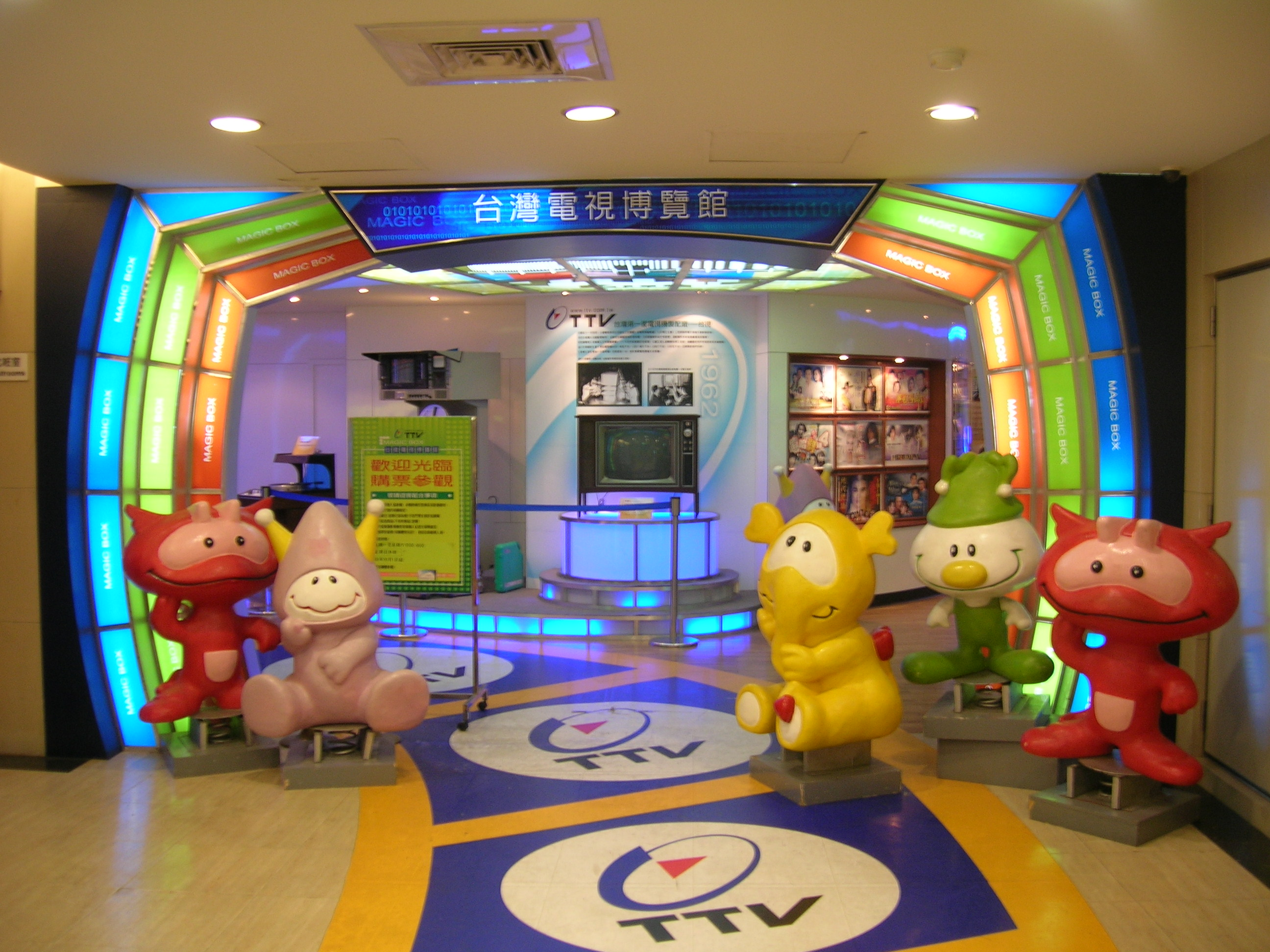 Taiwan Television Exposition at TTV Central Building B1.